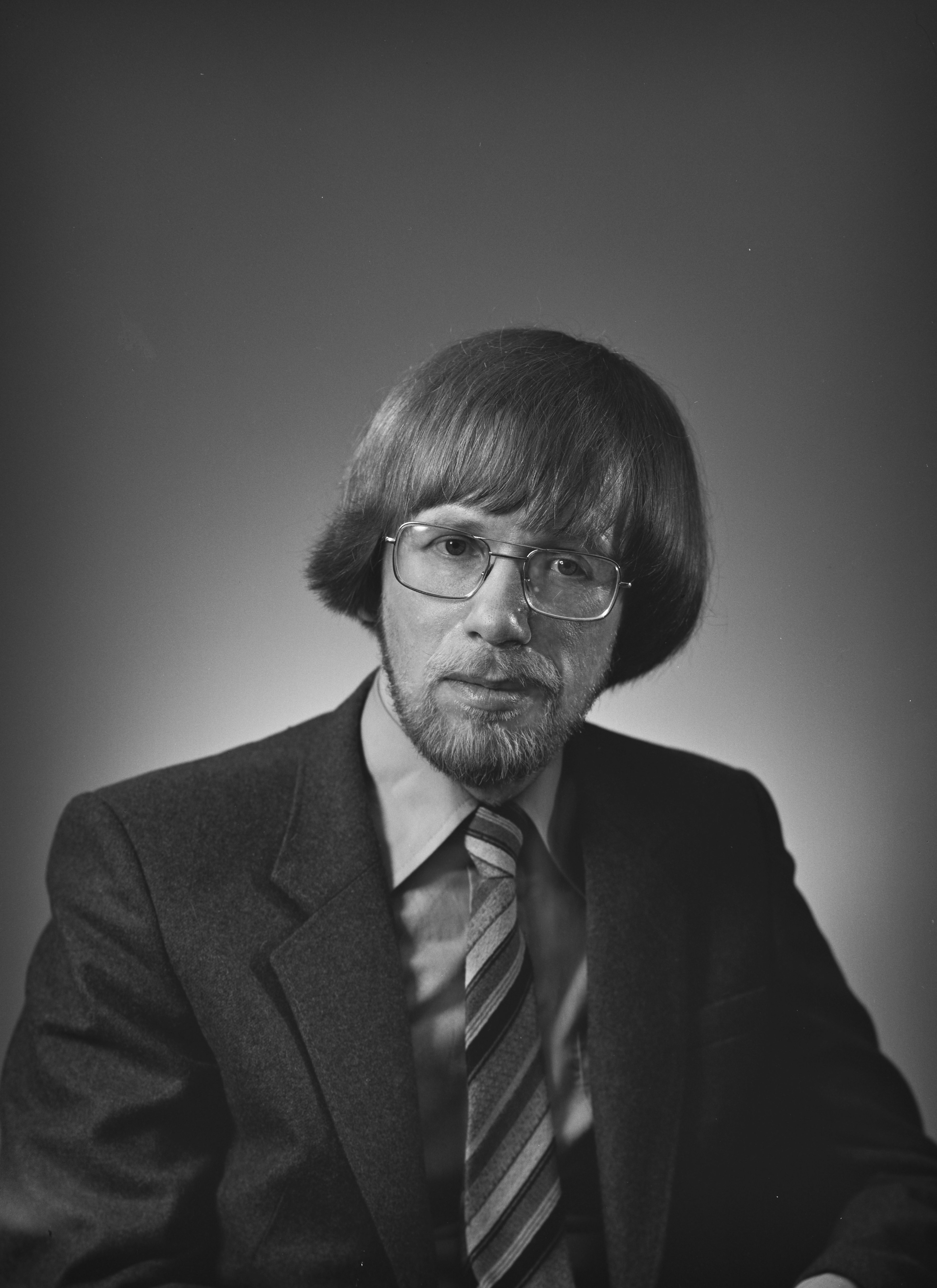 Photograph of the Finnish composer and pianist Paavo Heininen (1938–).